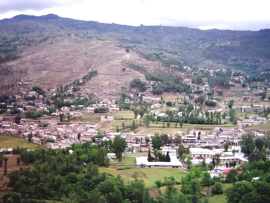 Picture of Battagram city